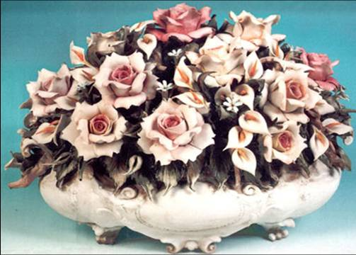 Capodimonte Majello porcelain, flower composition.